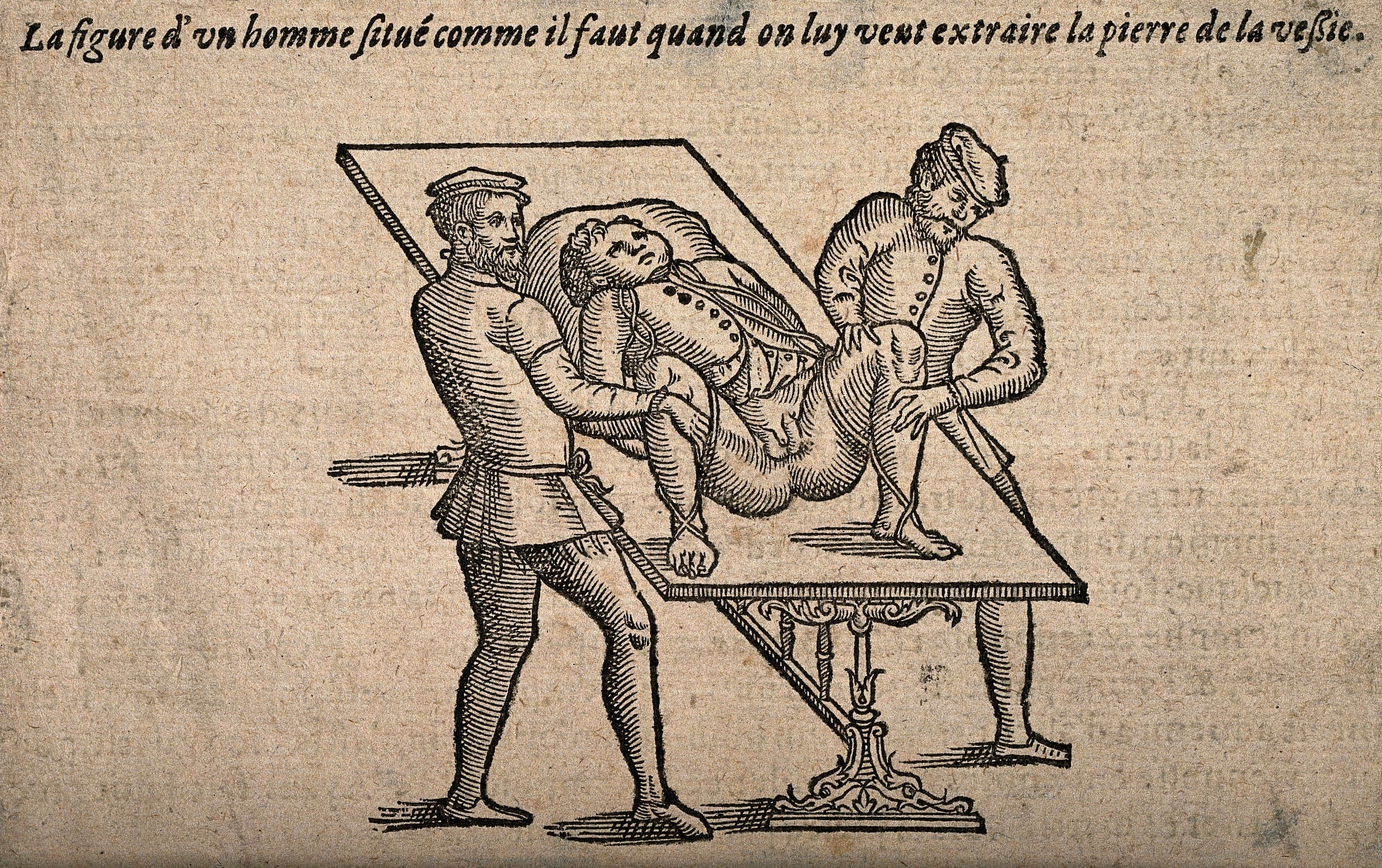 A male patient on a table being held in the lithotomy position by two assistants. Woodcut, 1628. Iconographic Collections Keywords: LITHOTOMY